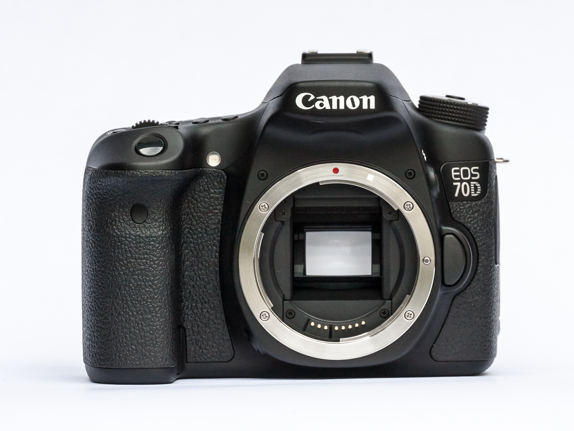 Canon EOS 70D body without lens